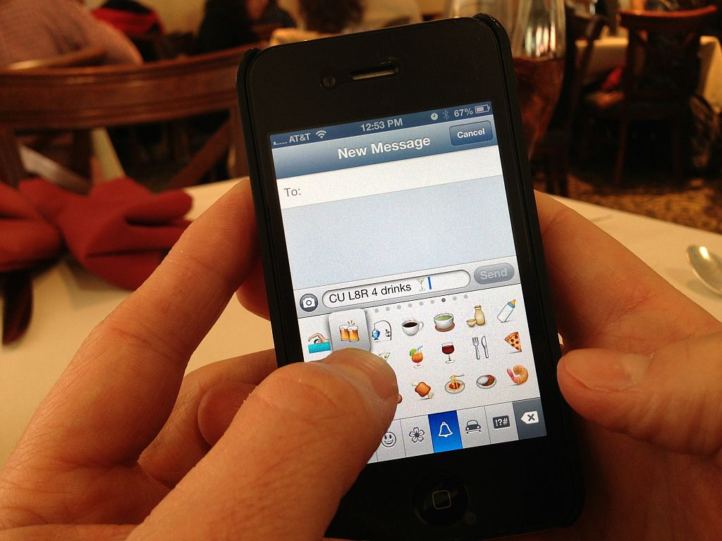 15 Habits of Text Message Masters From writing too long to peppering your message with emoticons, take your texting to the next level with these power tips. Texting has become an exceptionally vital part of our lives -- some might argue too much so. How many times have you been interrupted by a text, been ignored because of one or not gotten as much done because you're glued to your phone's keypad?